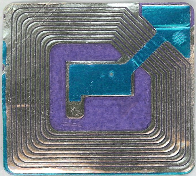 The tag came from a Sandisk flash drive. I placed the tag inside a plastic bag so that the glue would not dammage my scanner.